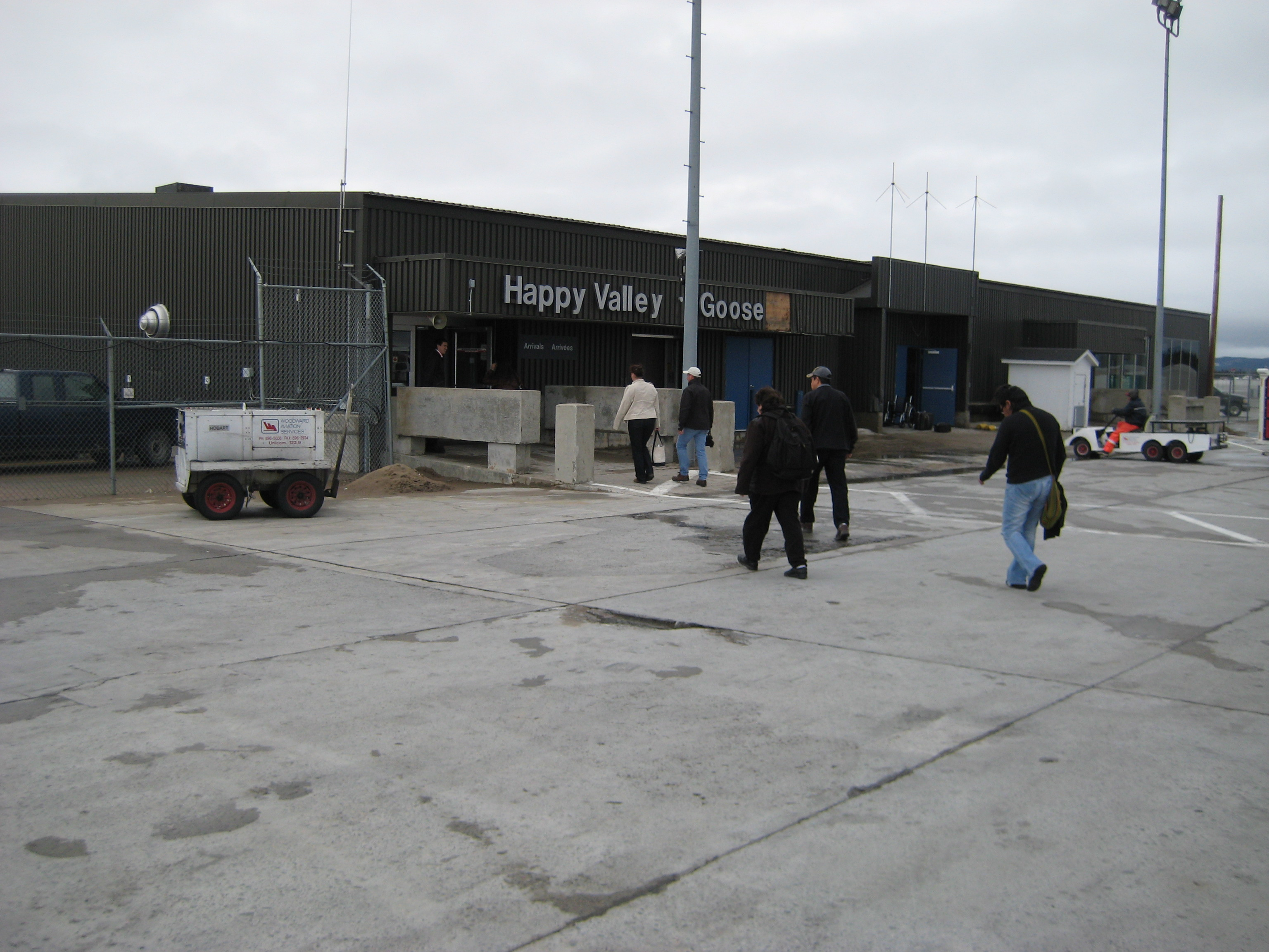 People entering airport terminal from tarmac at Happy Valley Goose Bay Airport, Labrador, Canada